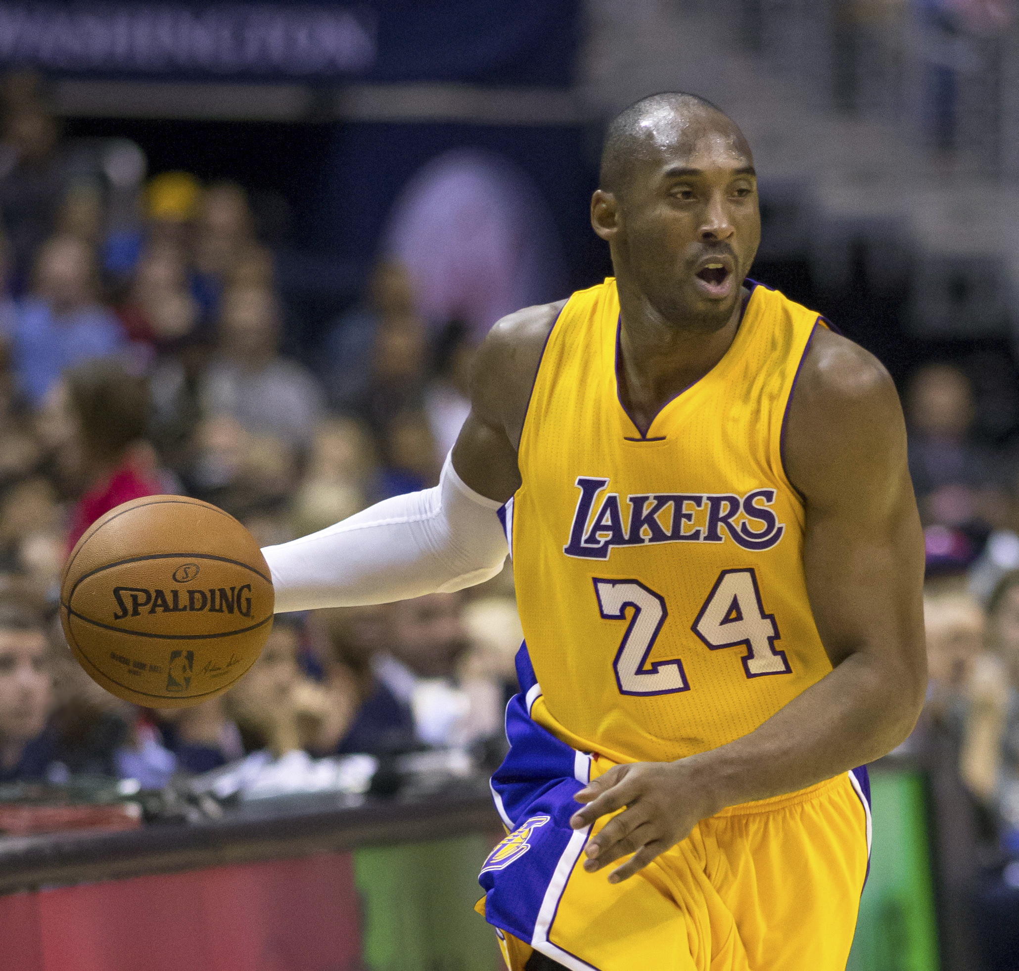 Lakers at Wizards 12/3/14